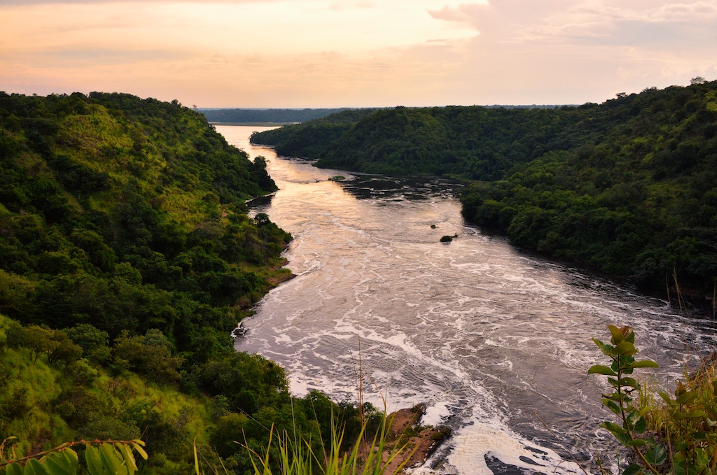 River Nile is the longest river in Africa. The total length of the river is 6650 km (4132 miles). The Nile basin covers an area of ​​3.4 million square kilometers, and is traversed by ten African countries called the Nile Basin countries.